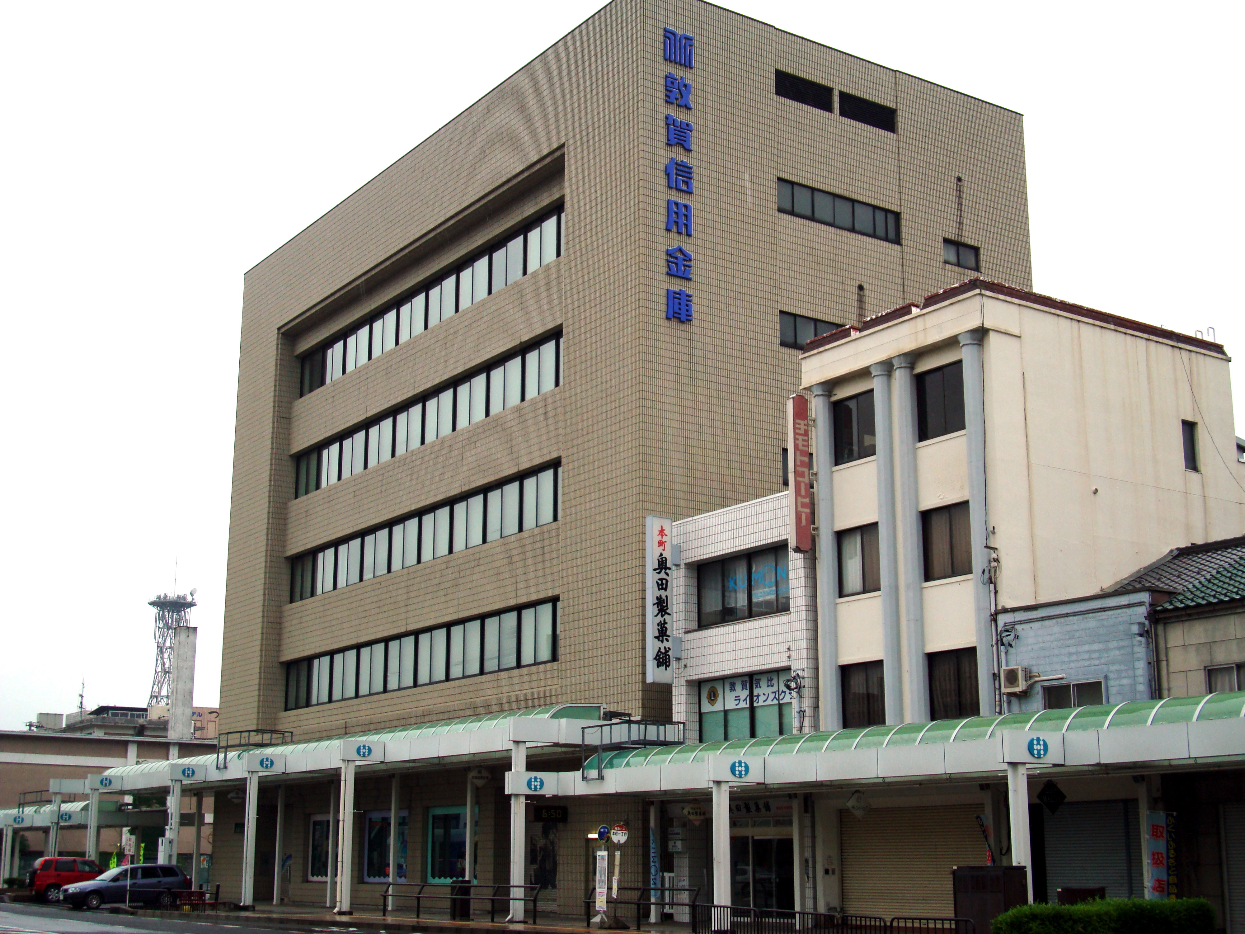 Tsuruga Shinkin Bank